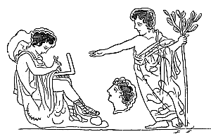 Attic red figure vase, dated to 410 BCE, The head of Orpheus speaks, a young man writes down the text, while Apollo holds a protective hand above. Beazley catalog # 250142, Cambridge, Corpus Christi College, Cambridge, Corpus Christi College, 103.25[1]